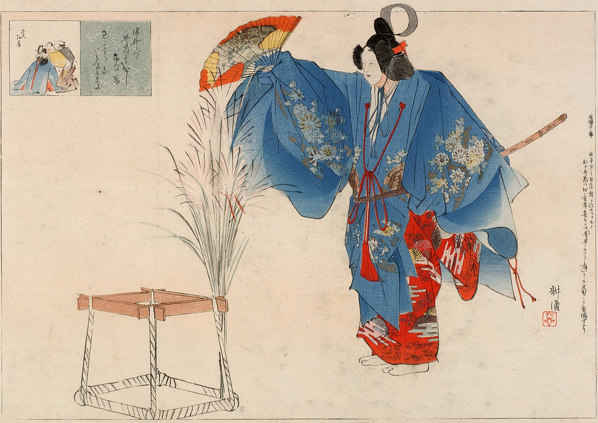 Scene from Nô drama "Izutsu"